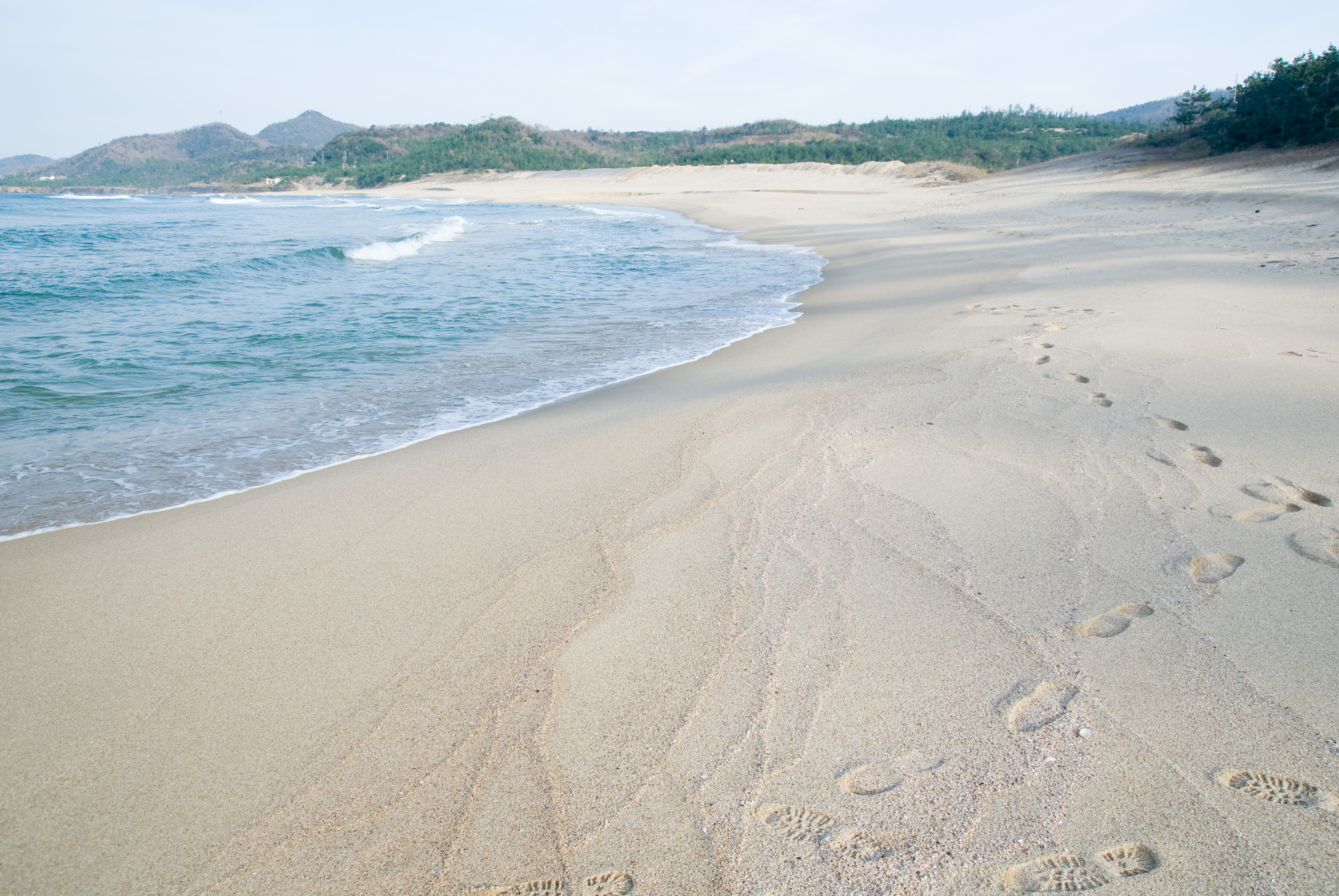 This KOTOHIKI BEACH in Kyotango, Kyoto Prefecture.